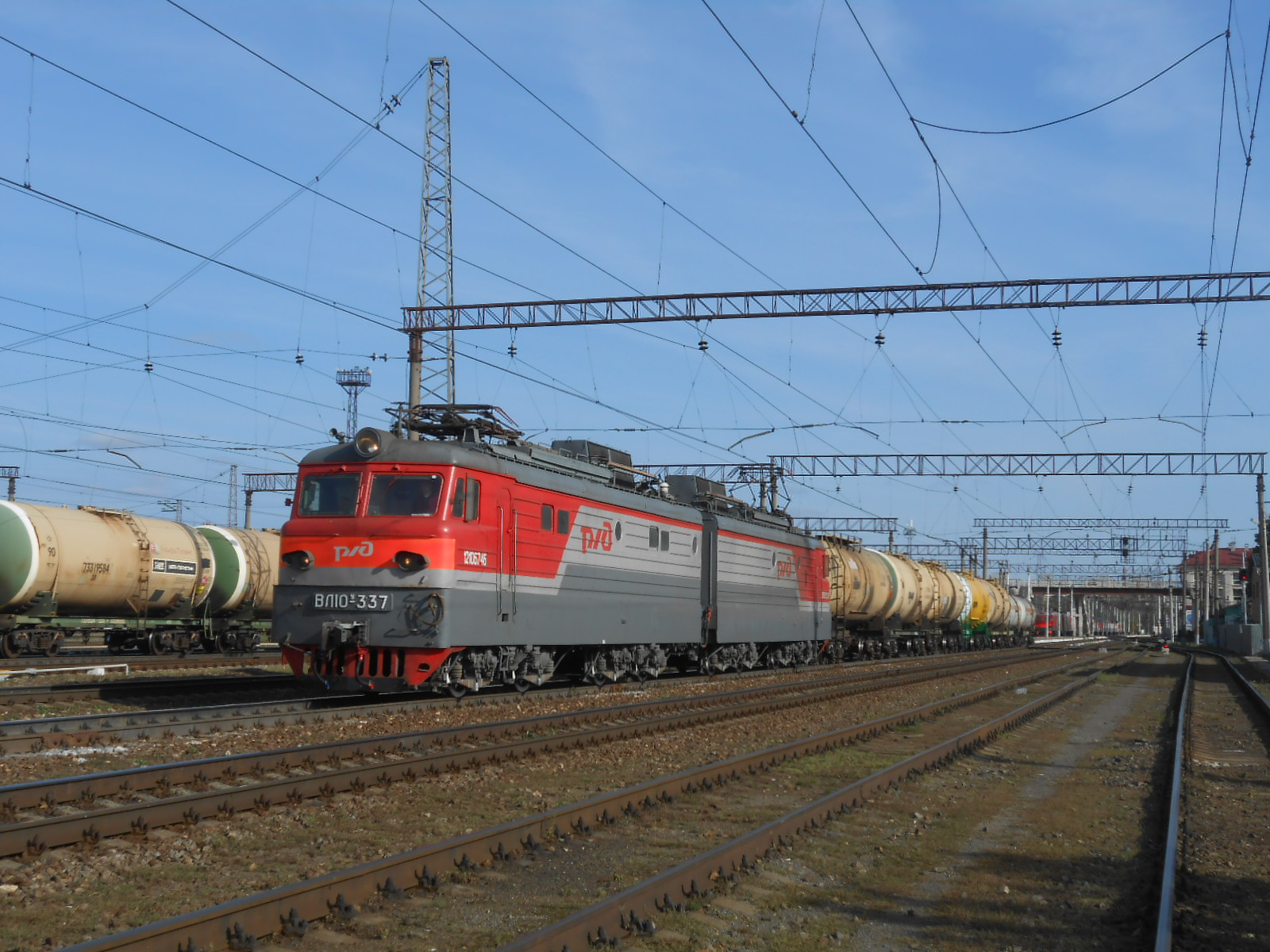 RZD VL10U-337 Ryazan-1 station